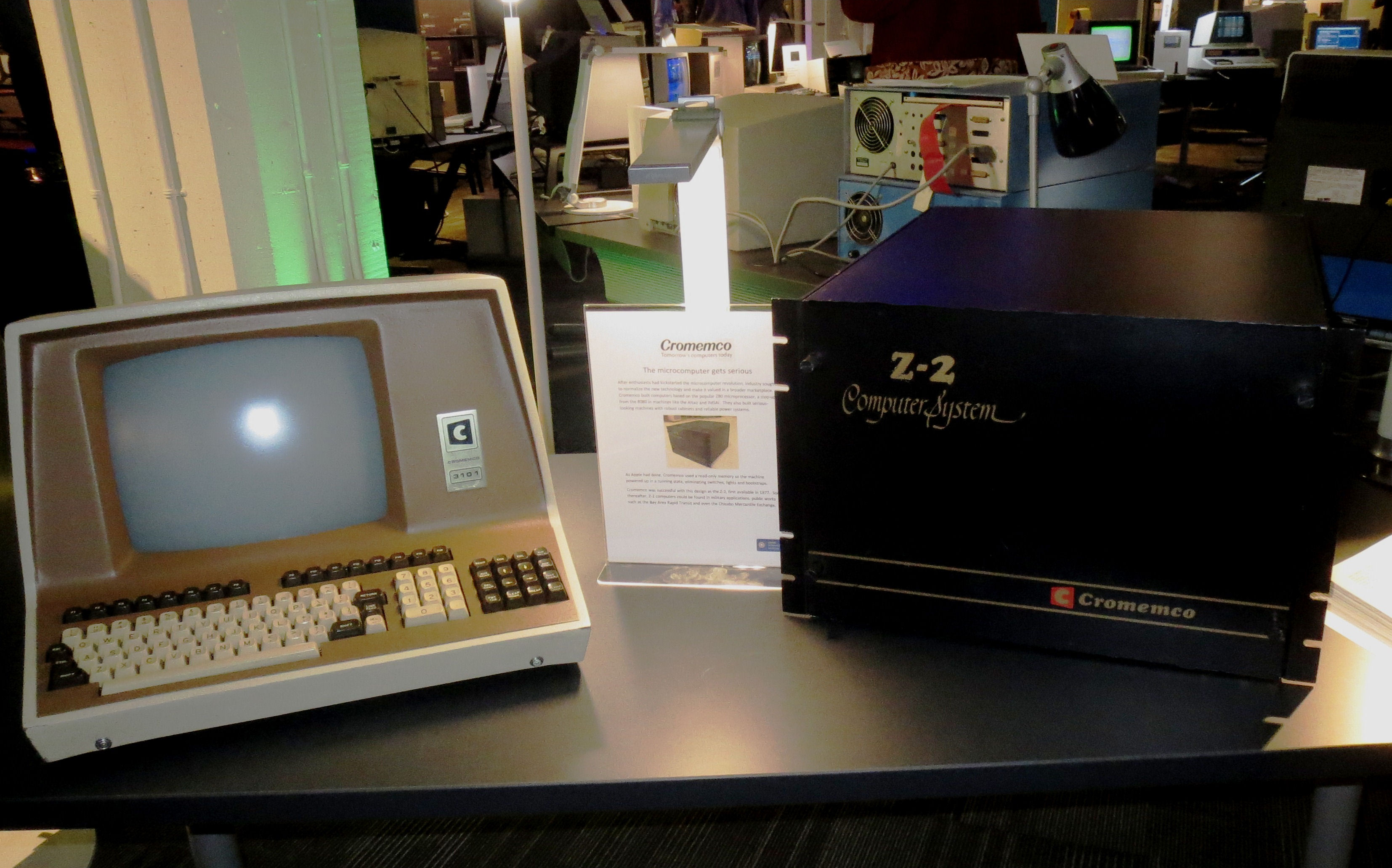 Cromemco Z-2 Computer in the Living Computer Museum, Seattle, Washington